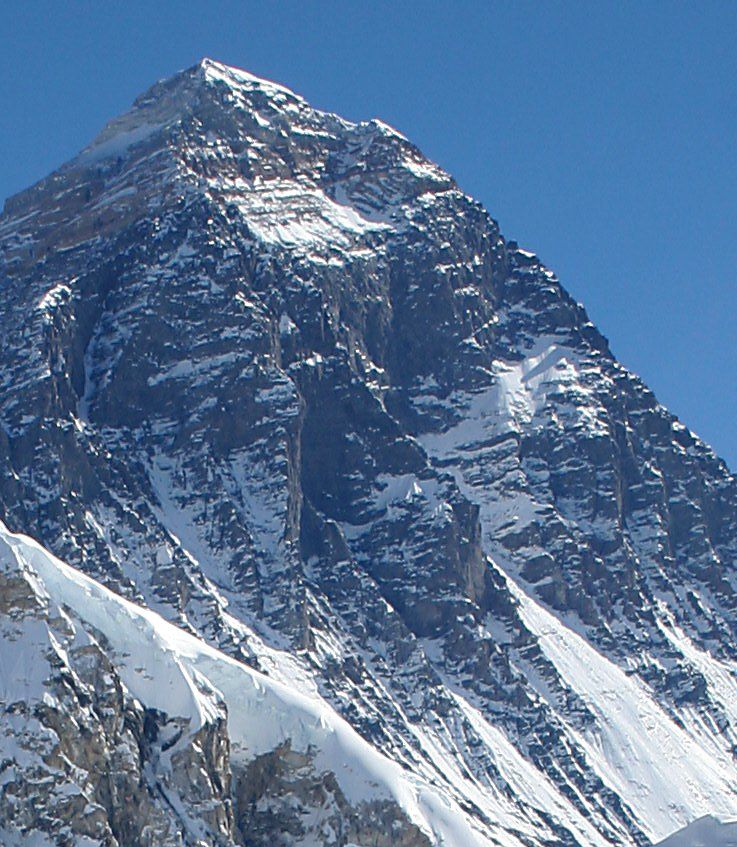 Mount Everest from Kalapatthar.